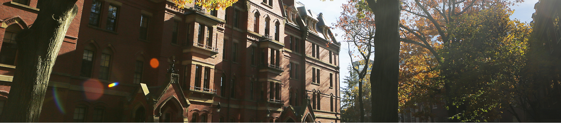 approved by Ulink College to be used in Wikipedia